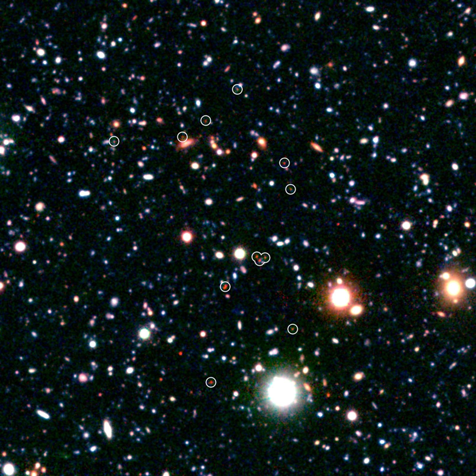 Astronomers have discovered a massive cluster of young galaxies forming in the distant universe. The growing galactic metropolis, named COSMOS-AzTEC3, is the most distant known massive "proto-cluster" of galaxies, lying about 12.6 billion light-years away from Earth. Members of the developing cluster are shown here, circled in white, in this image taken by Japan's Subaru telescope atop Mauna Kea in Hawaii. The cluster was discovered by a suite of multi-wavelength telescopes, including NASA's Spitzer, Chandra and Hubble space observatories, Subaru and the W.M. Keck Observatory, also atop Mauna Kea in Hawaii. The other dots in this picture are stars or galaxies that are not members of the cluster -- most of the them are located closer to us than the cluster, but some are farther away. The two brightest spots are stars. Though they appear bright in this image, they are actually tens of thousands of times fainter than what we can see with our eyes.